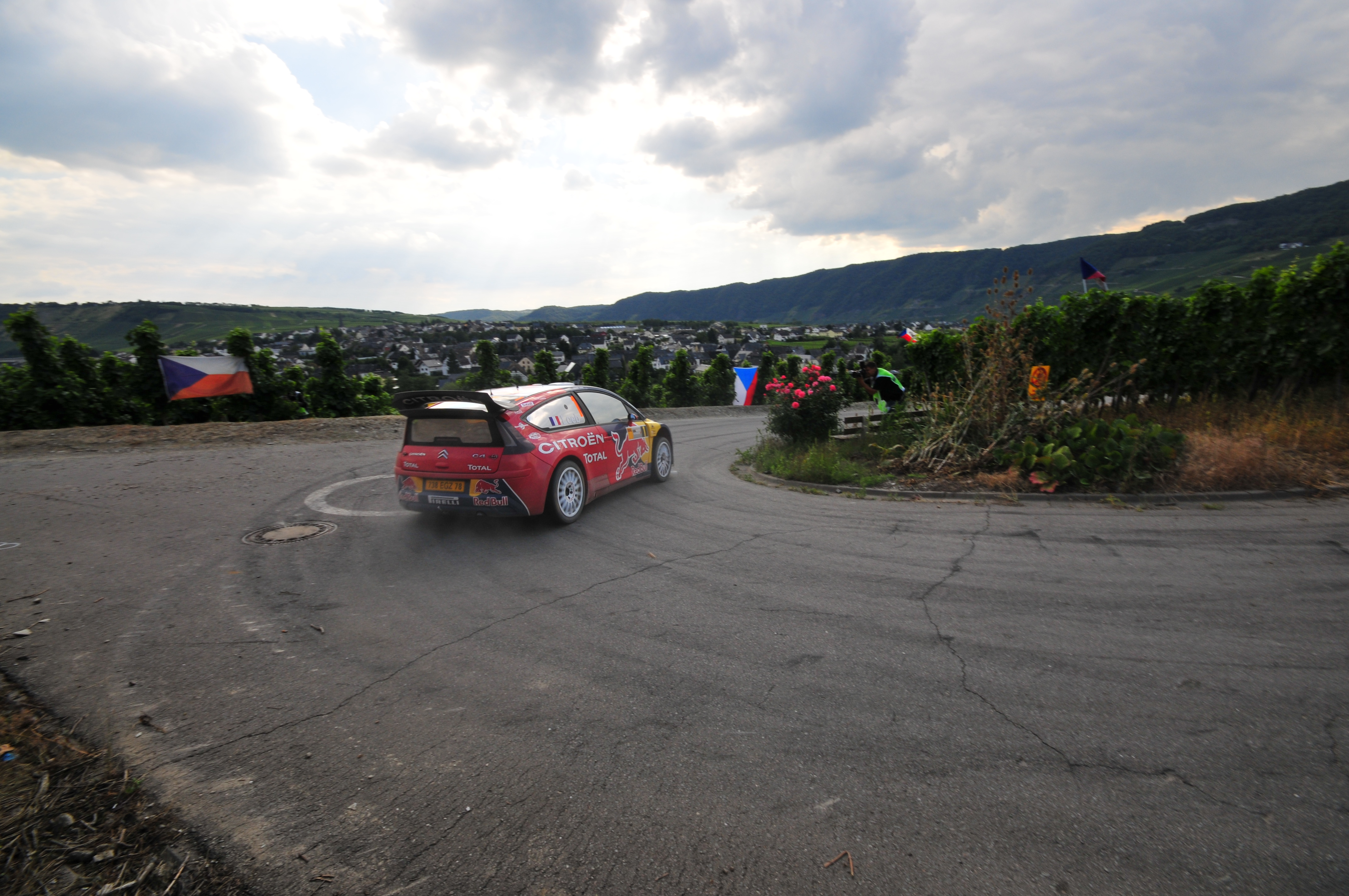 Sébastien Loeb driving his Citroën C4 WRC at the 2008 Rallye Deutschland.